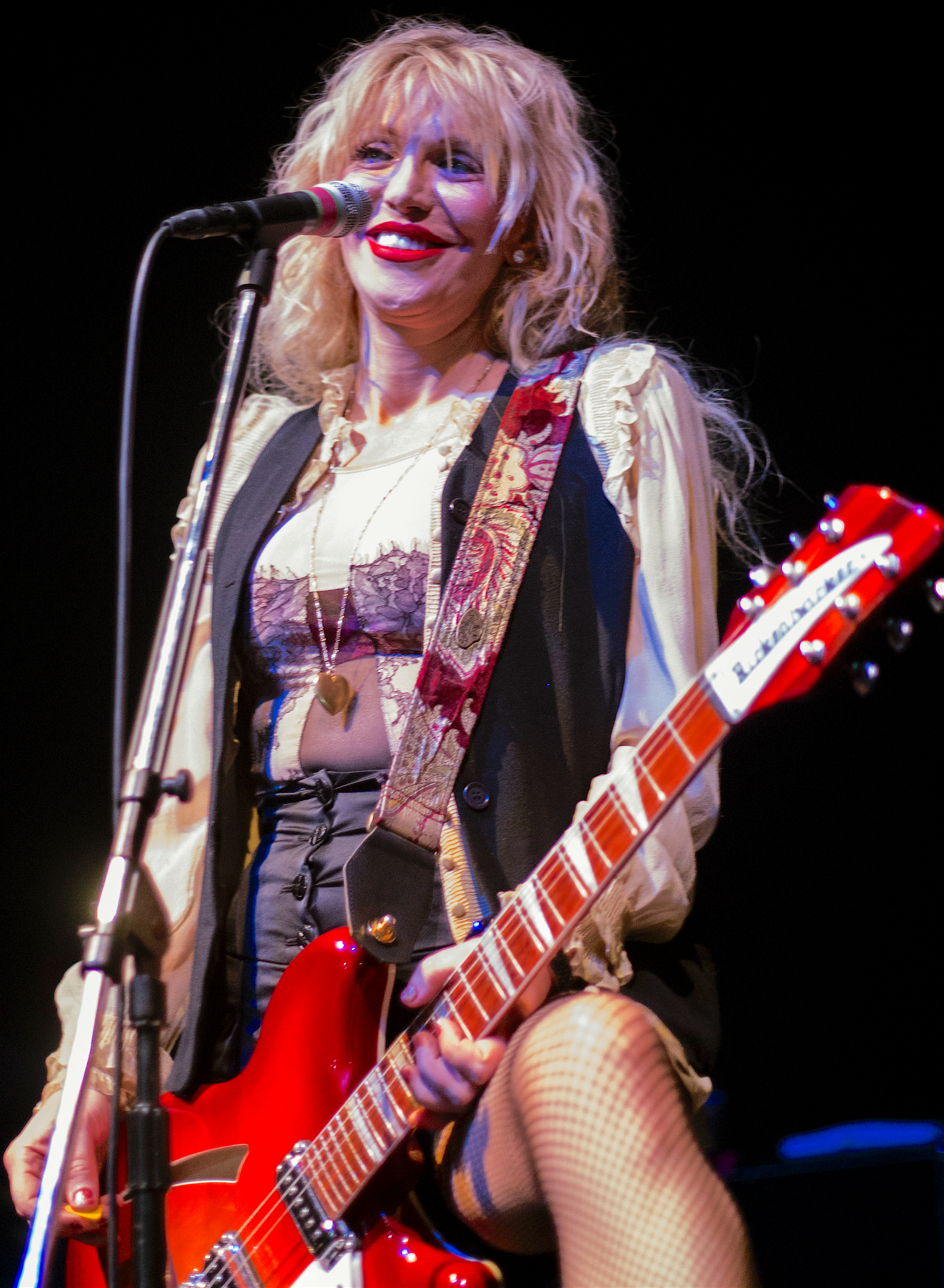 Courtney Love performing in Ventura, CA, 2015